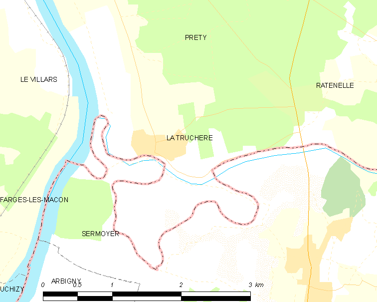 Map of French municipality